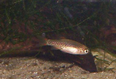 Graham Ramsay Category:Cypriniformes images